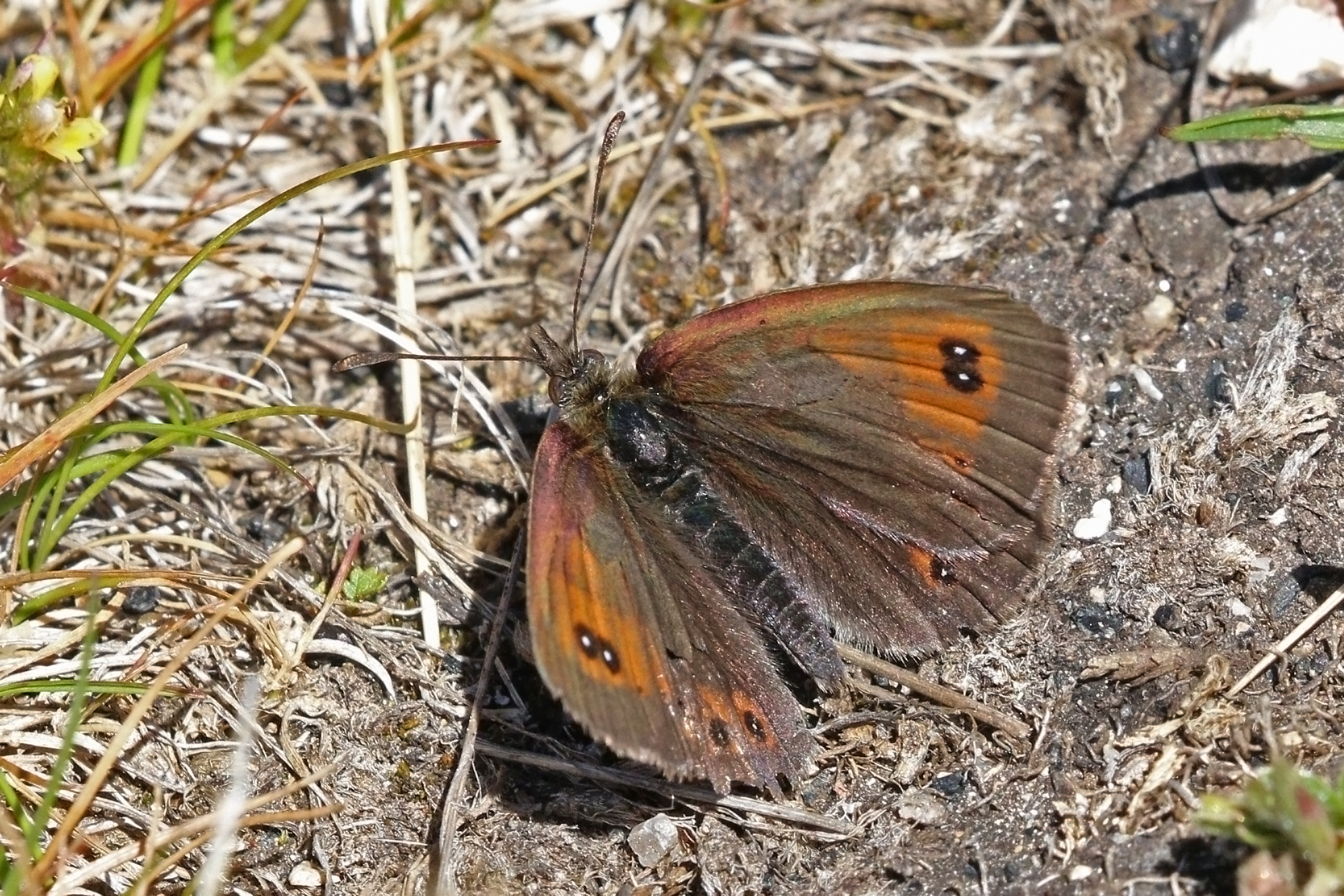 Ottoman brassy ringlet (Erebia ottomana) male, Bezbog Lake, Dobrinishte, Bulgaria